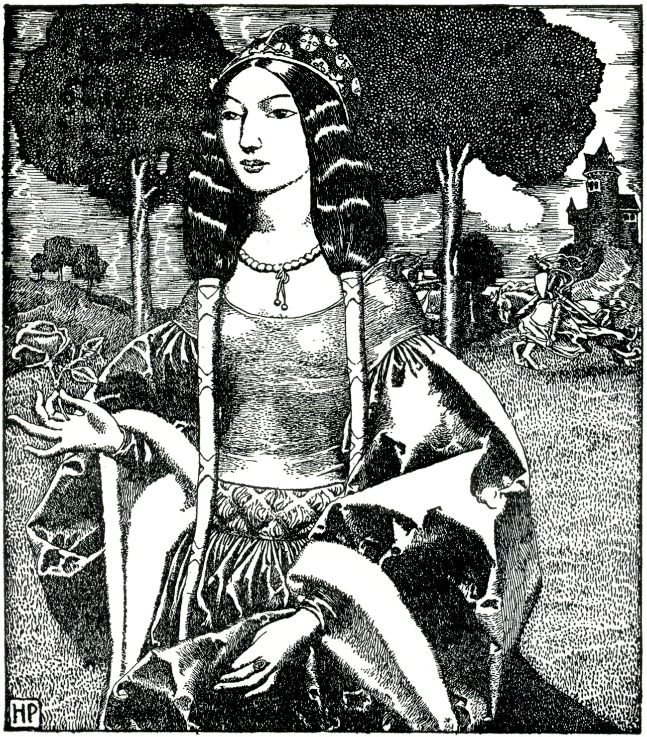 Howard Pyle illustration from the 1903 edition of The Story of King Arthur and His Knights scanned and archived at where it was marked as Public Domain.